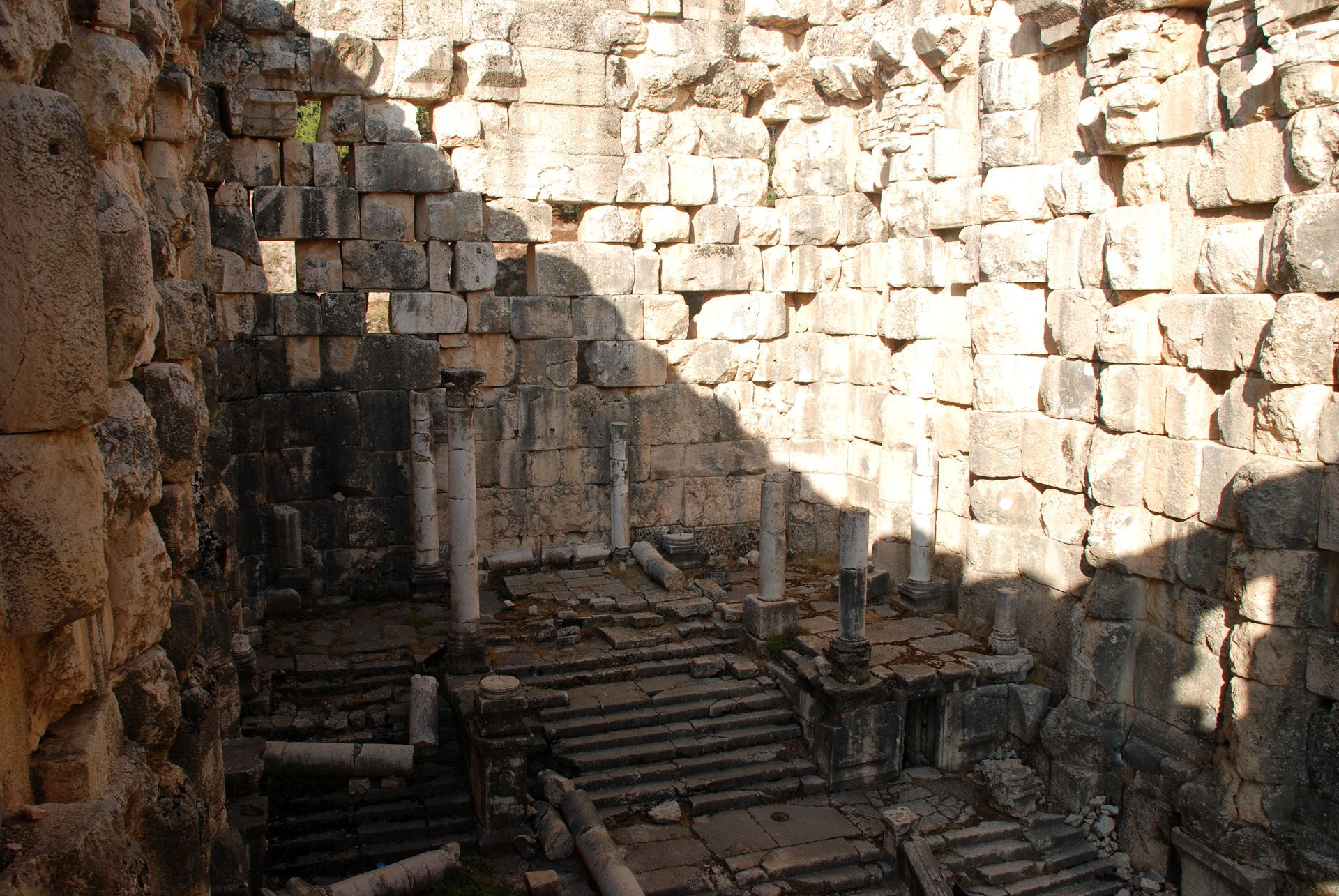 Niha (Zahlé), Lebanon. Inside Great Roman temple